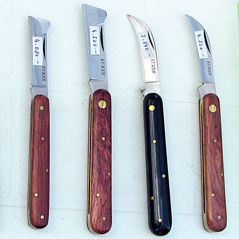 Kuker grafting knives